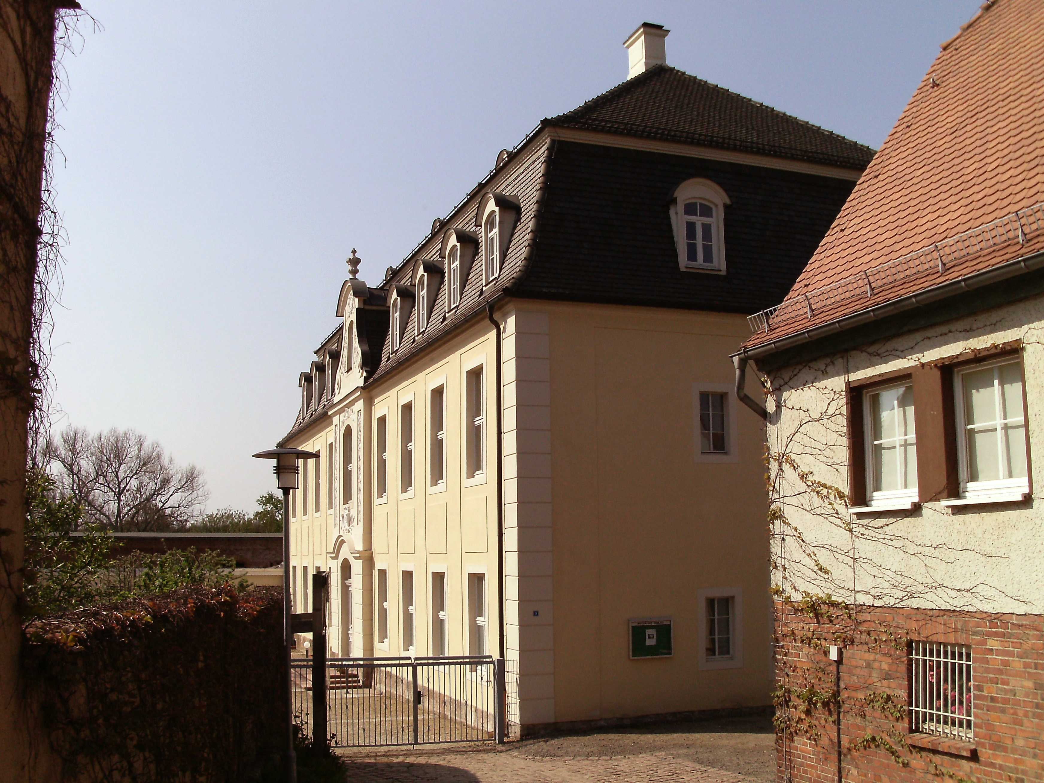 Ermlitz manor house (Schkopau, district of Saalekreis, Saxony-Anhalt)